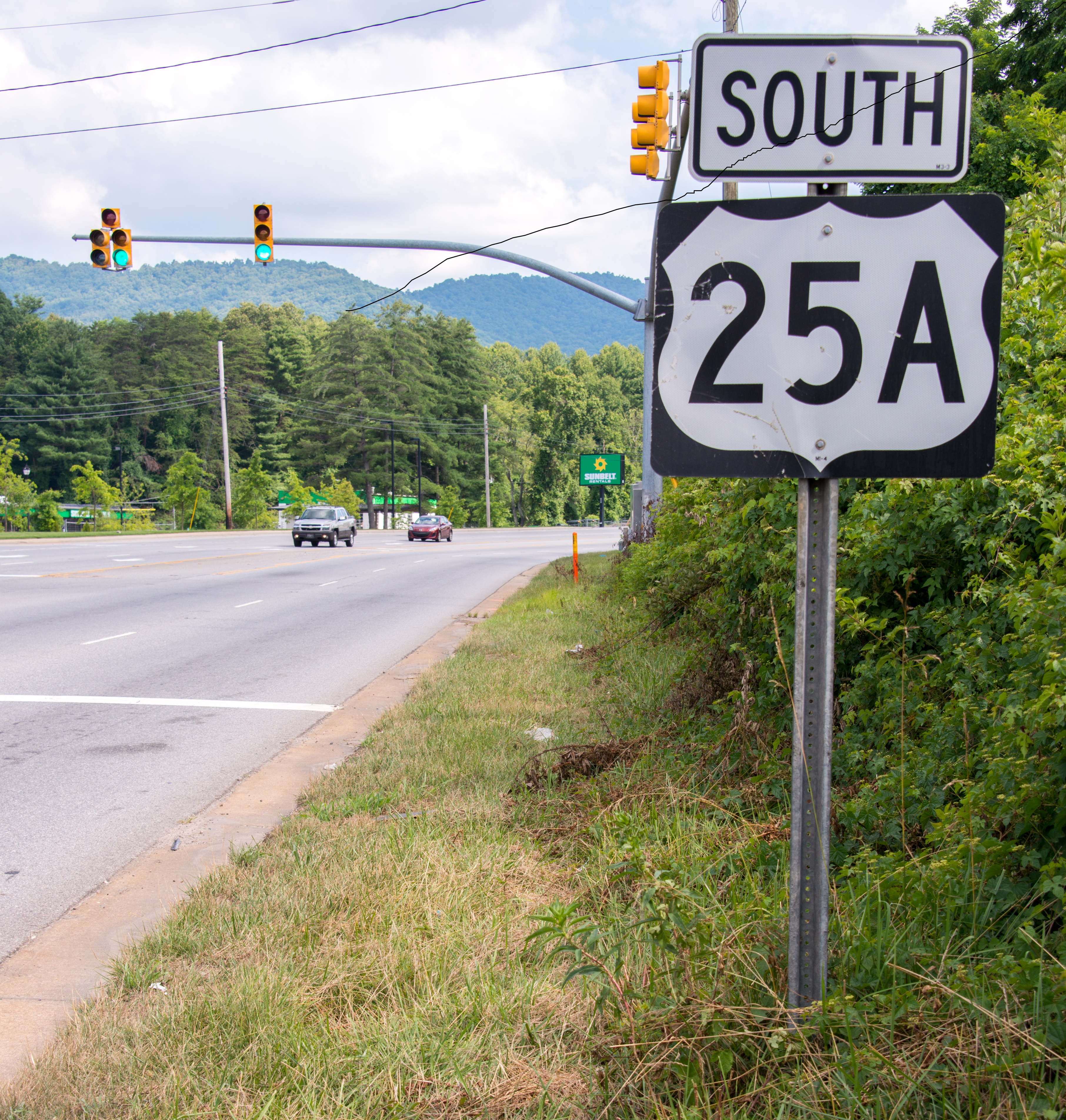 U.S. Route 25A southbound towards Arden, North Carolina.